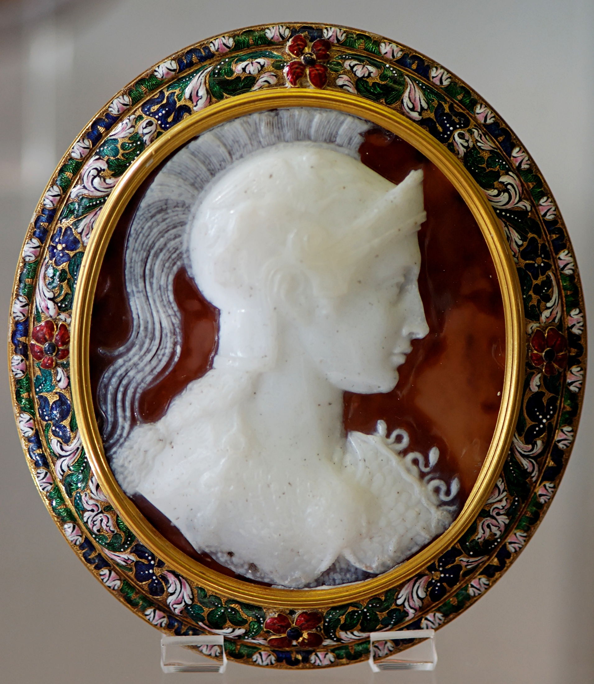 Athena wearing the ægis. Sardonyx cameo, late 1st century BC; mount: enameled gold by Josias Belle, late 17th century.